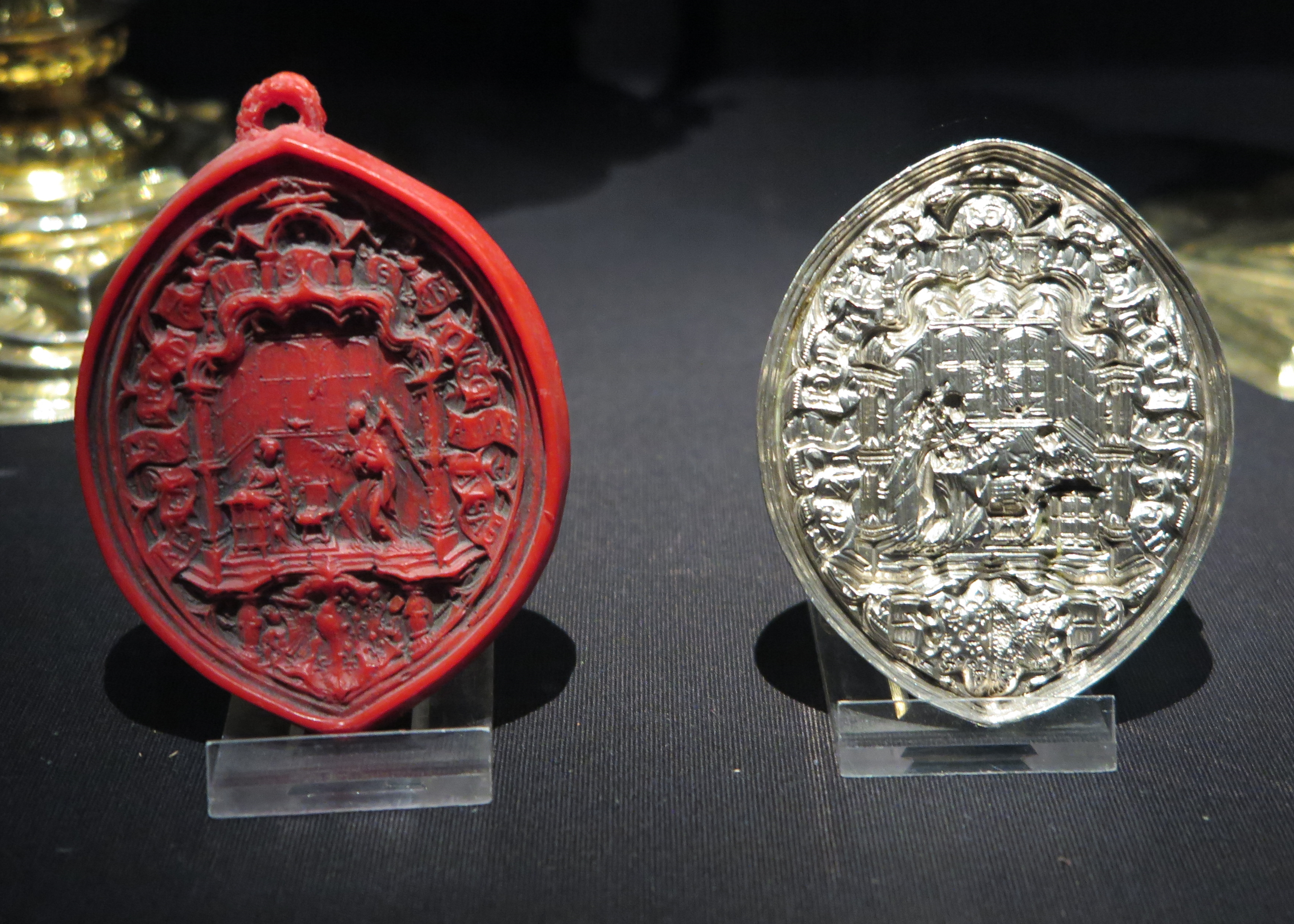 Seal and seal matrix of the chapter of Aachen.